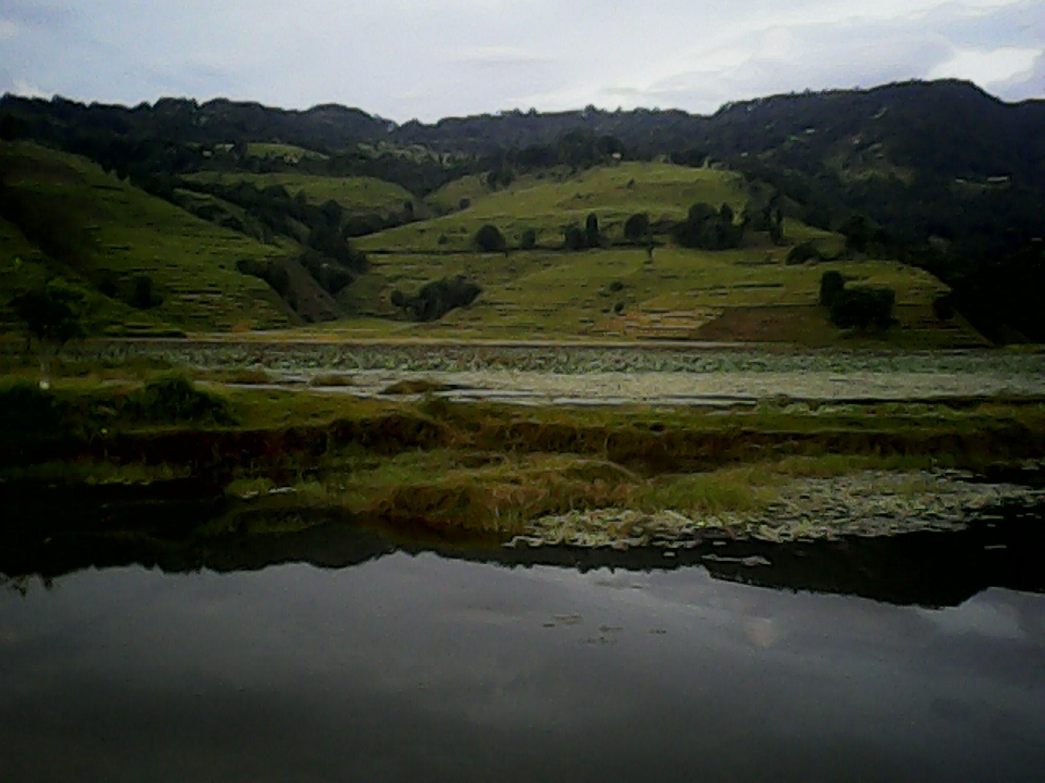 Image of Khaste lake, a lake at Nepal